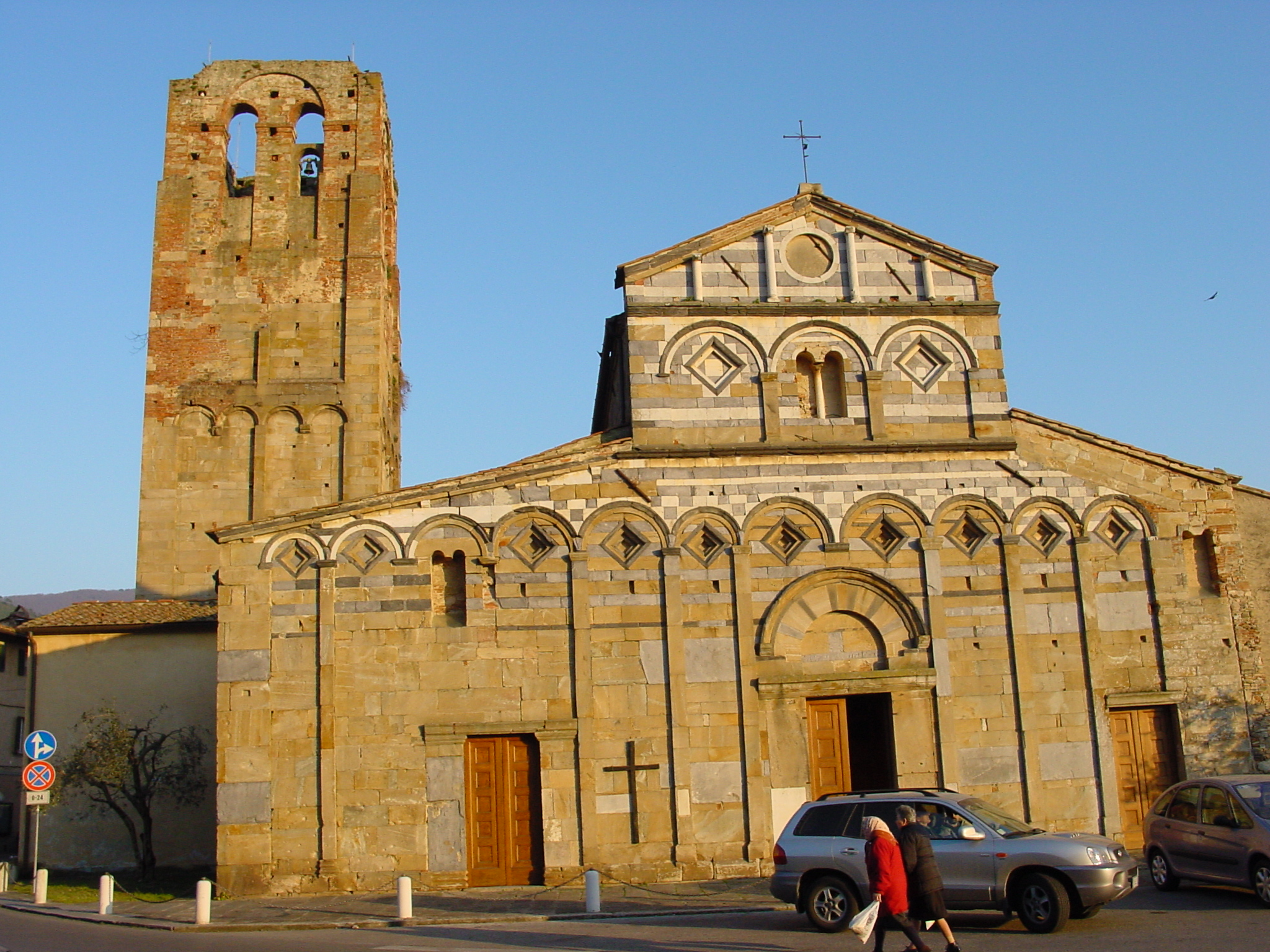 Church Pieve Ss. Giovanni ed Ermolao in Calci, Italy